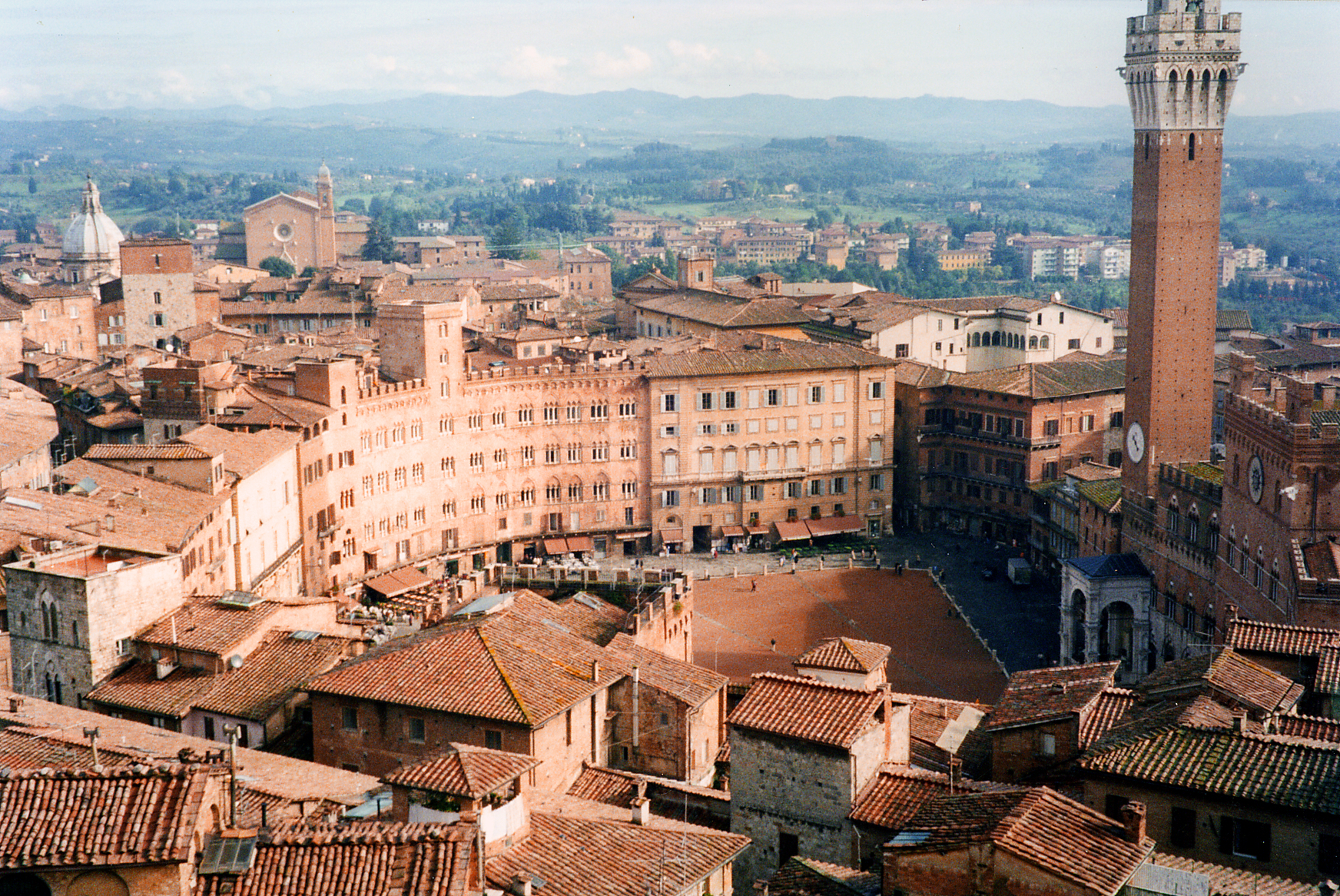 Piazza del Campo, Siena, Italy